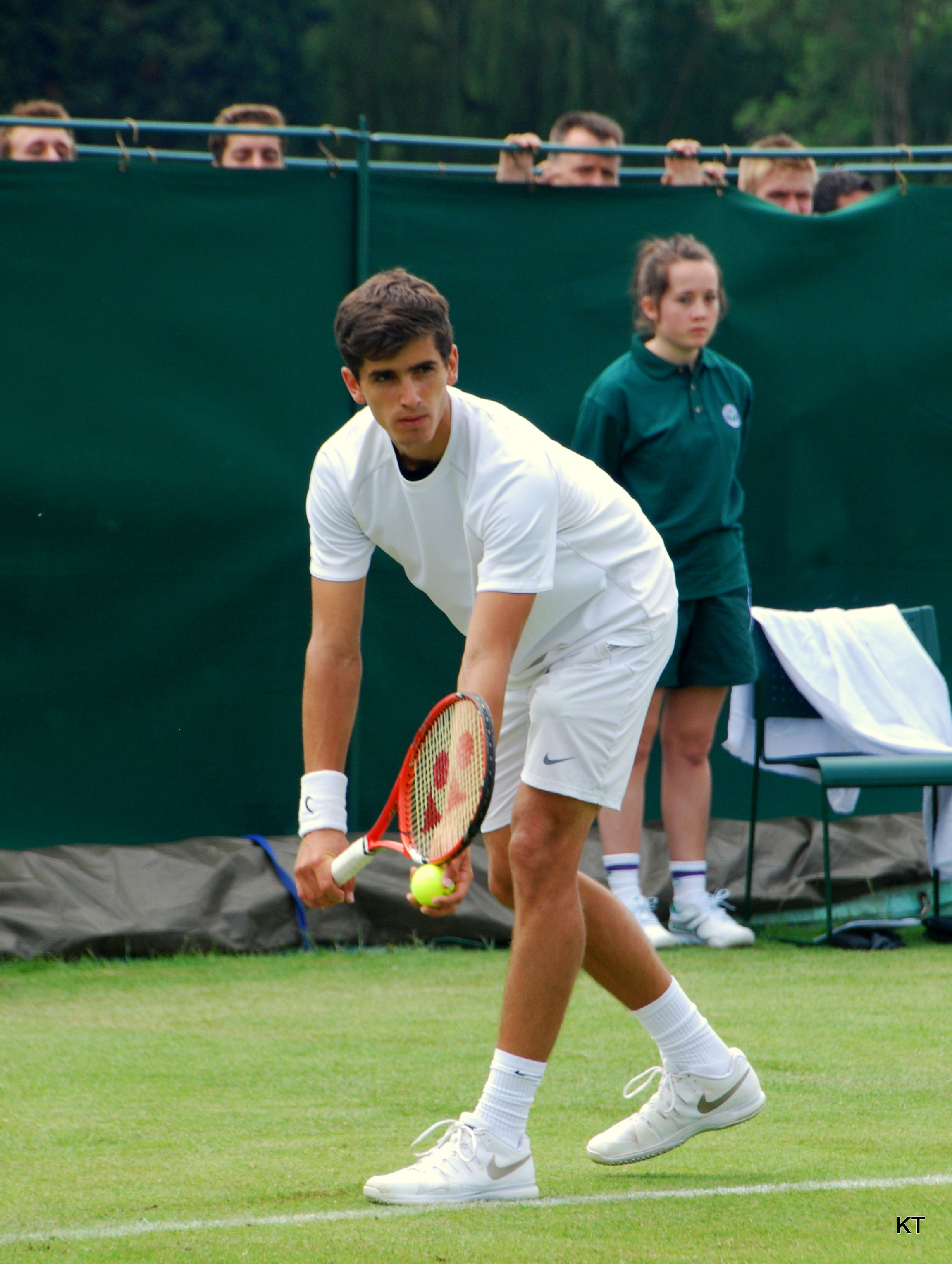 Pierre-Hugues Herbert - first round of Wimbledon qualifying, 16th June 2014.